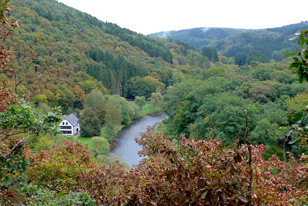 "Blade track" - the tourist marked route around the German city of Solingen (Northern Rhine-Westphalia). 5th stage: along the river Wupper. 9,2 km.